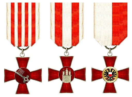 The three Hanseatenkreuze (“hanseatic crosses”), a decoration awarded in WWI by the cities Bremen, Hamburg and Lübeck.